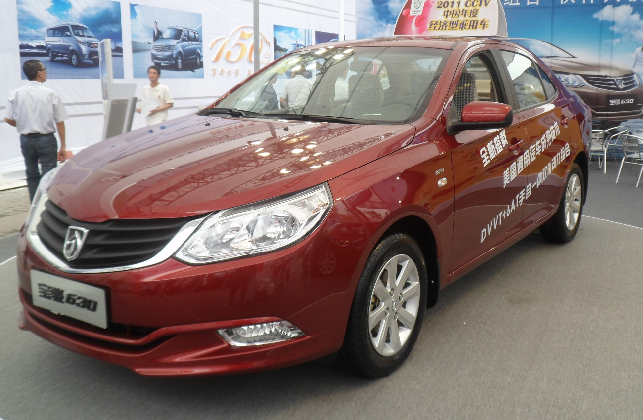 Baojun 630 photographed at the 2012 Chongqing Auto Show, Chongqing, China.